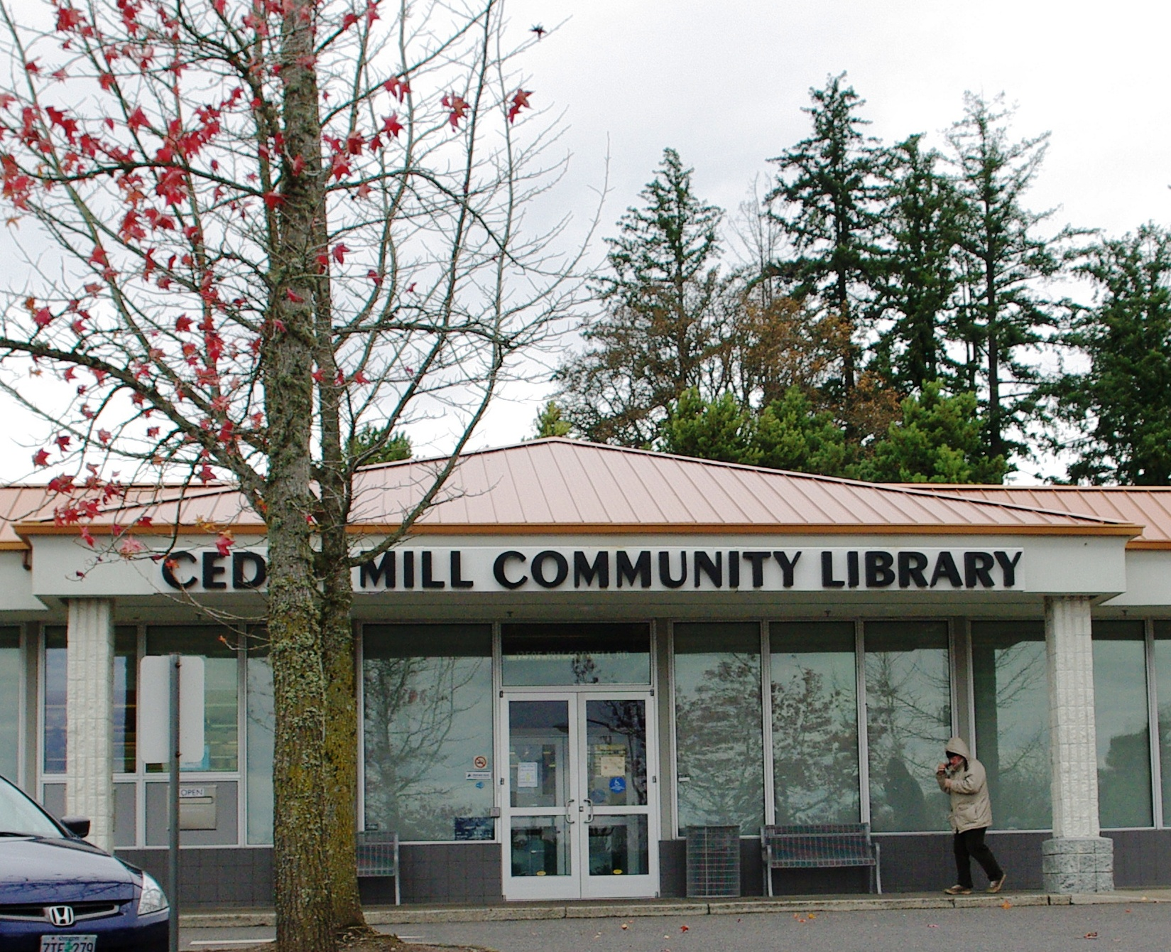 Library in the Cedar Mill, Oregon, area.